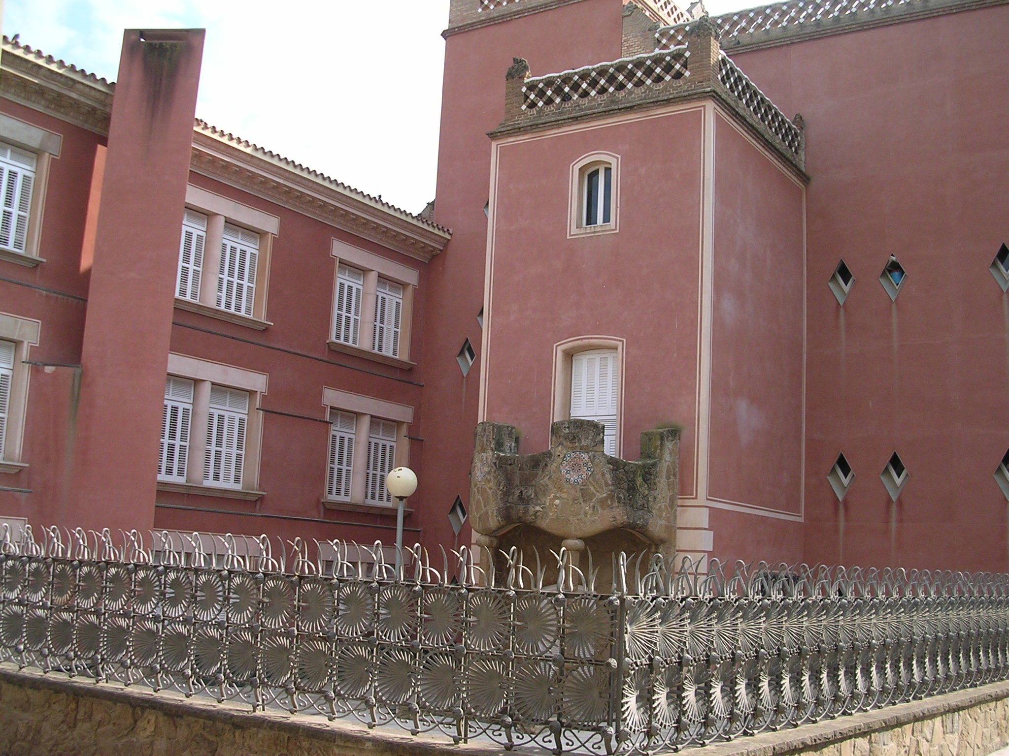 Barcelona, Spain